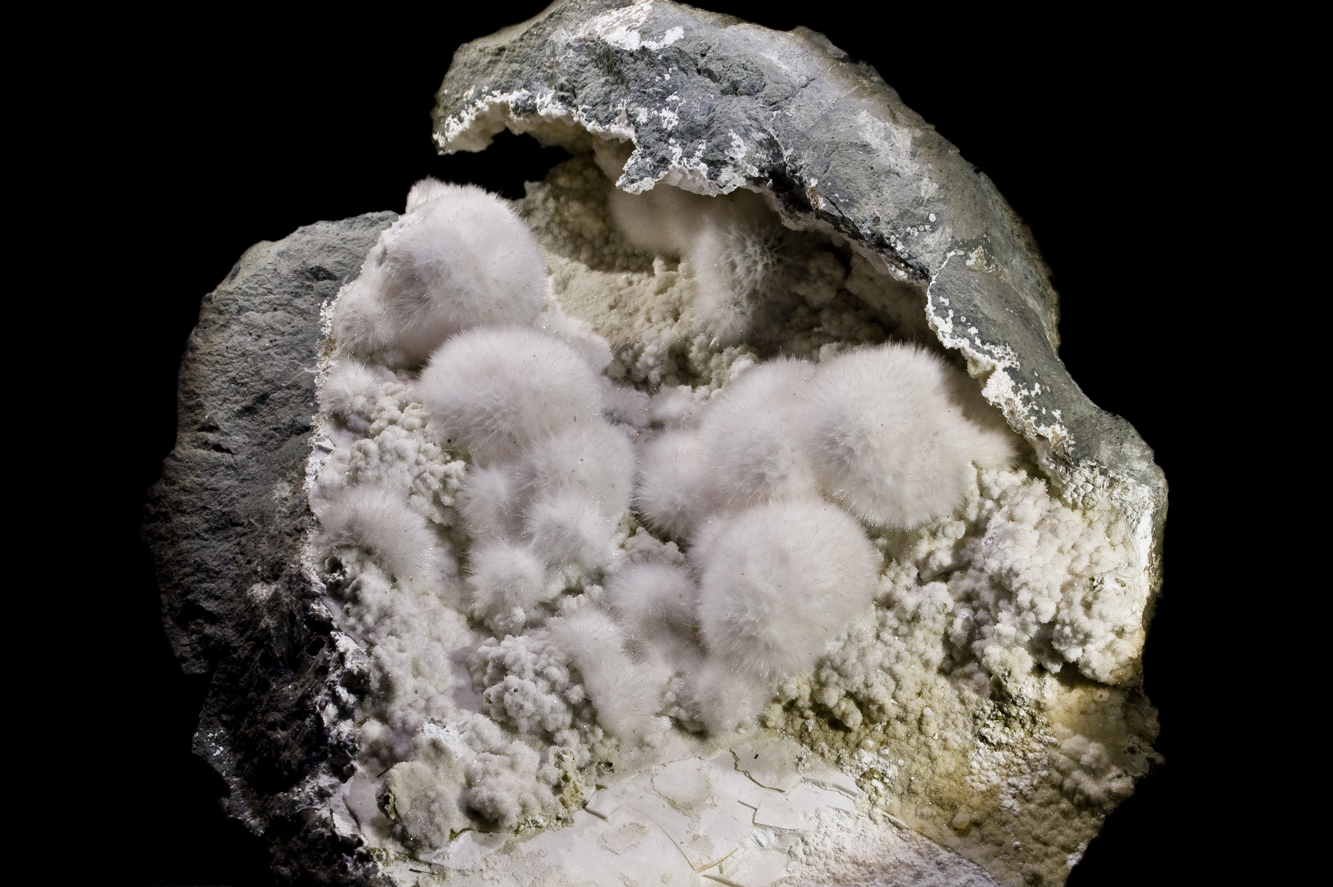 Okenite Locality : Khandivali, Maharashtra, India Size : (28 × 22 cm)